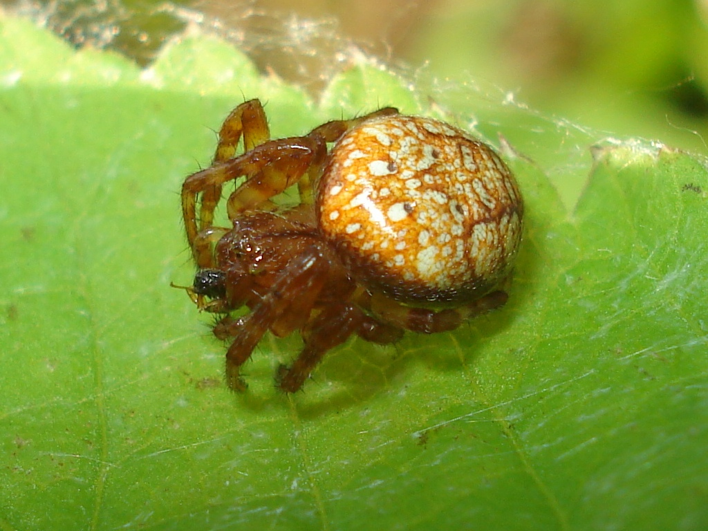 Araneus alsine